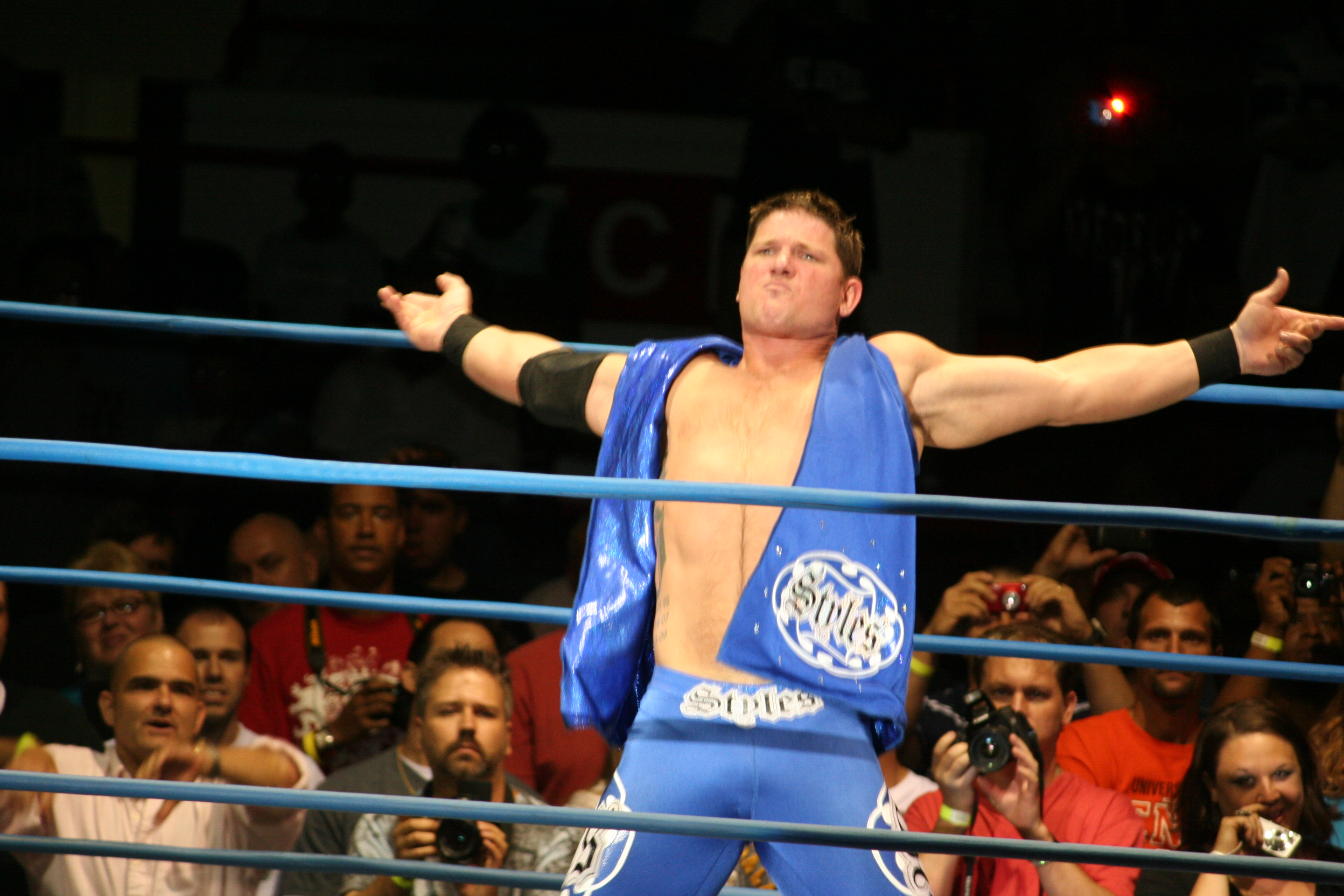 Professional wrestler A.J. Styles at a TNA live event.